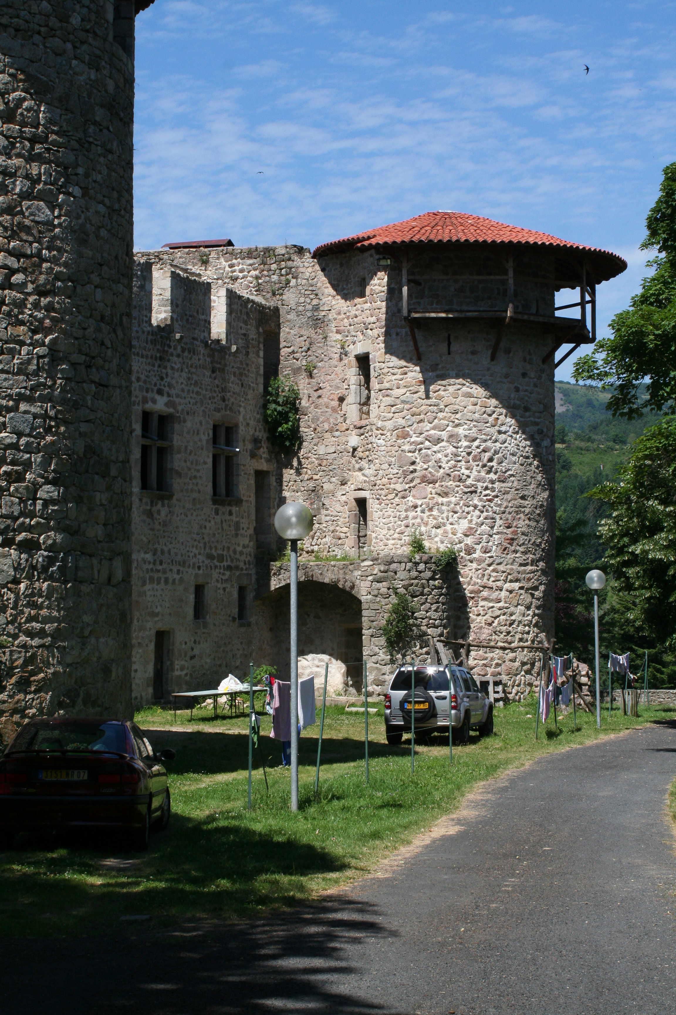 Castle of la Chèze